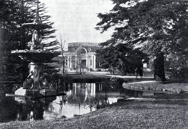 A view of the lily pond and Peacock Fountain with the McDougall Art Gallery in the background, Botanic Gardens, Christchurch [1935] The Peacock Fountain, a late Victorian park fountain, was imported from England, funded by a bequest from the Hon. John Peacock (1827-1905). The fountain was unveiled in 1911